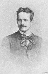 Portrait of Josef Braun (1864 - 1891), Czech writer.